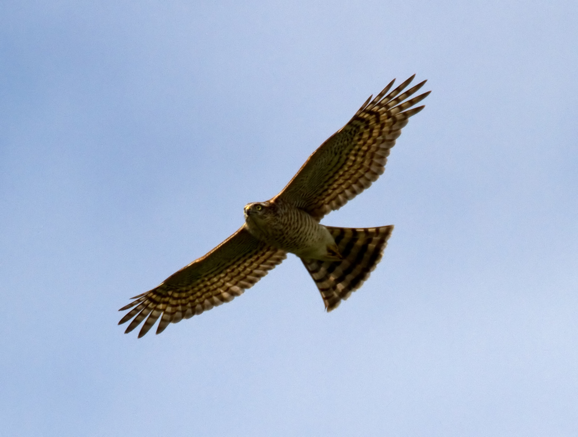 Sparrowhawk 2a